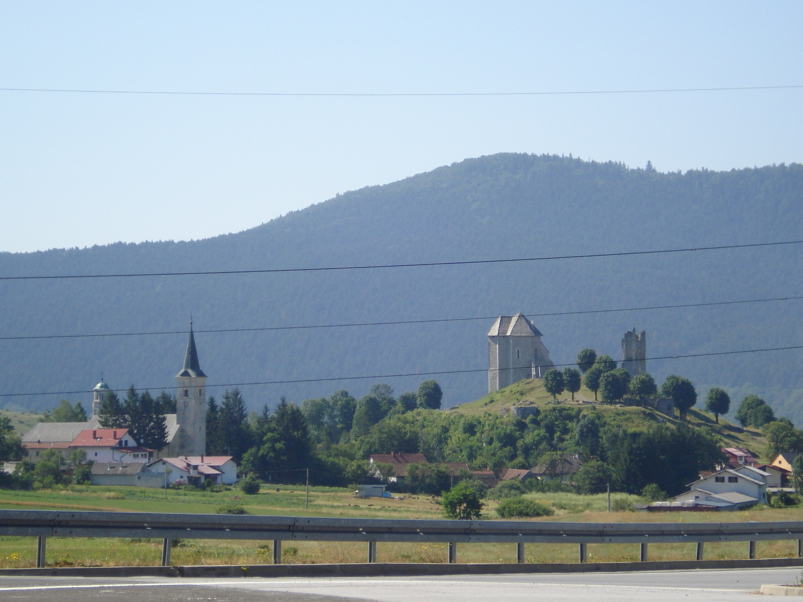 The town of Brinje, Lika-Senj County, Croatia - A1 Highway view